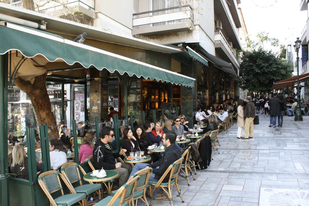 Cafe, bars and restaurants in Kolonaki district of Athens, Greece. 2007